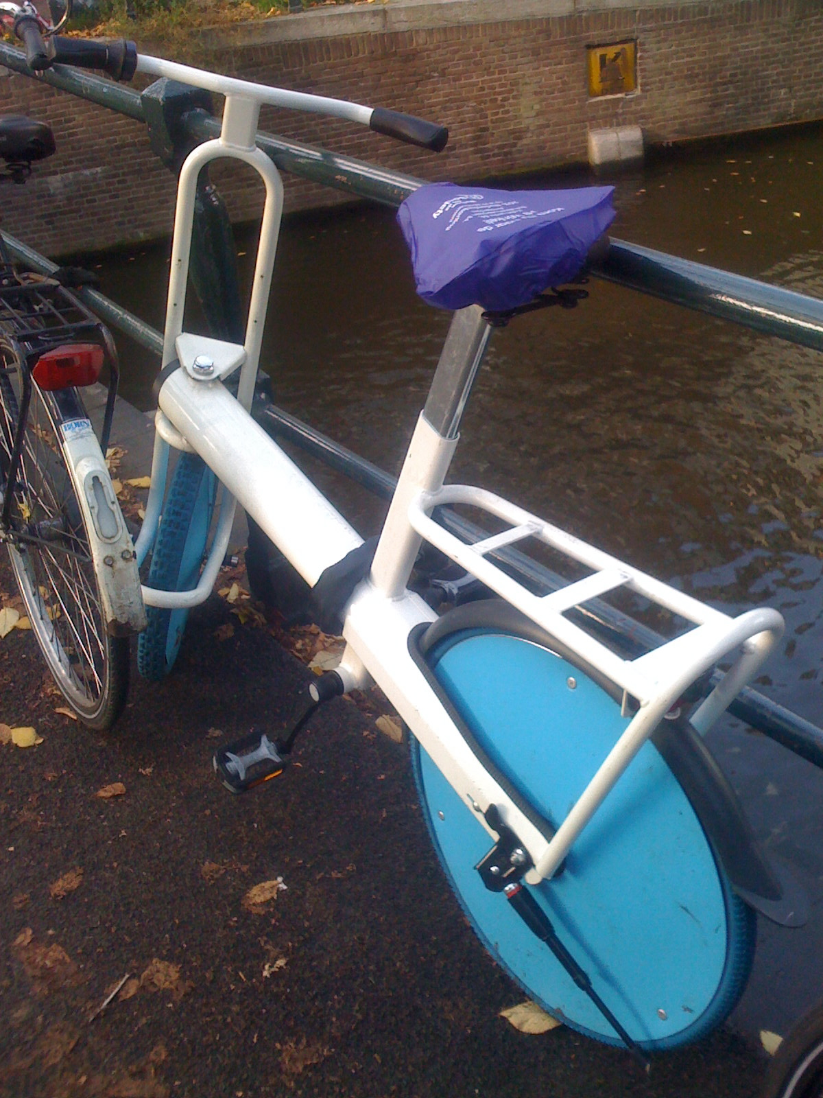 White Bike for Amsterdam "Depo" project